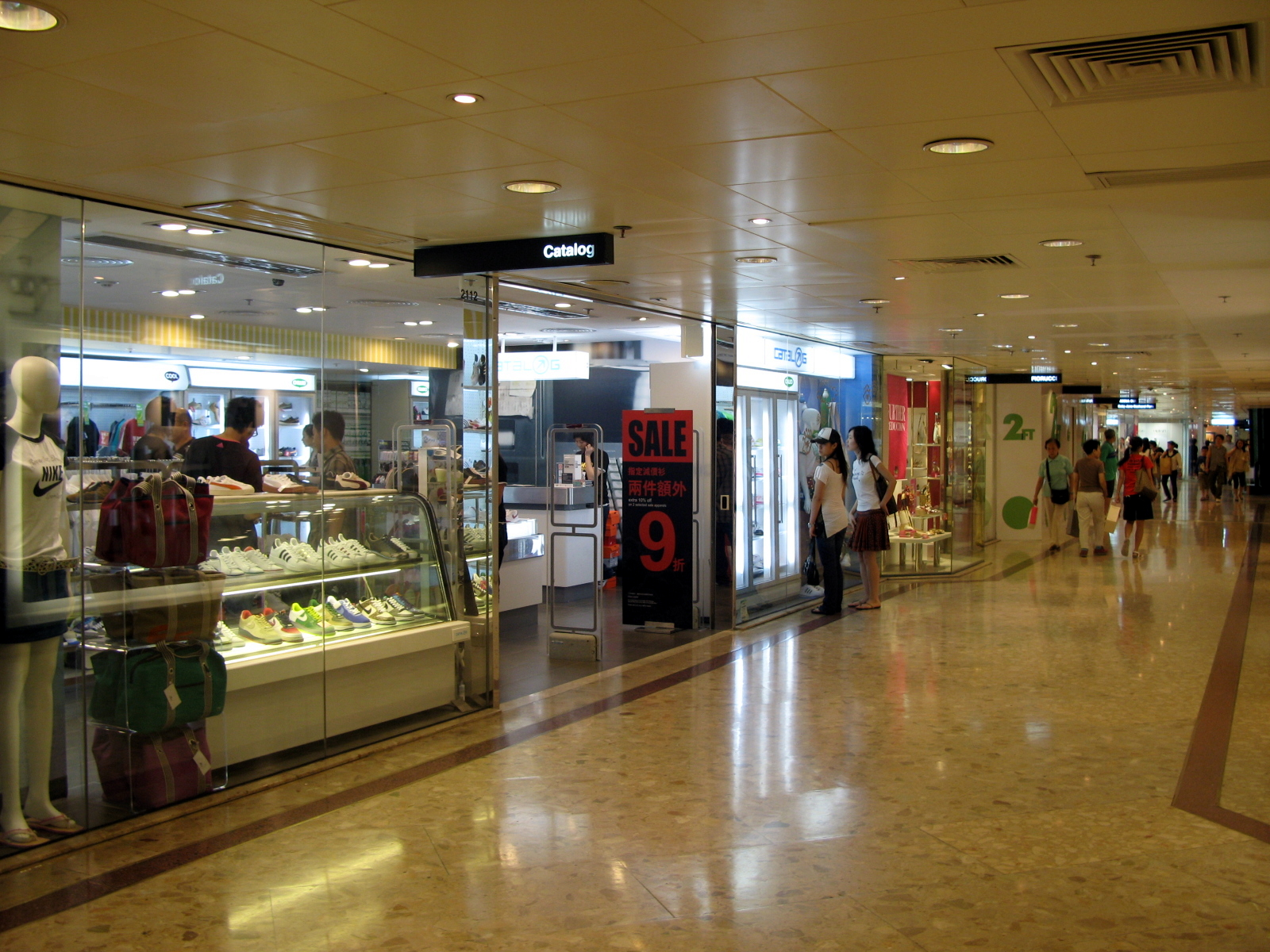 Harbour City Gateway Old Wings 海洋廊購物商場剩餘部份